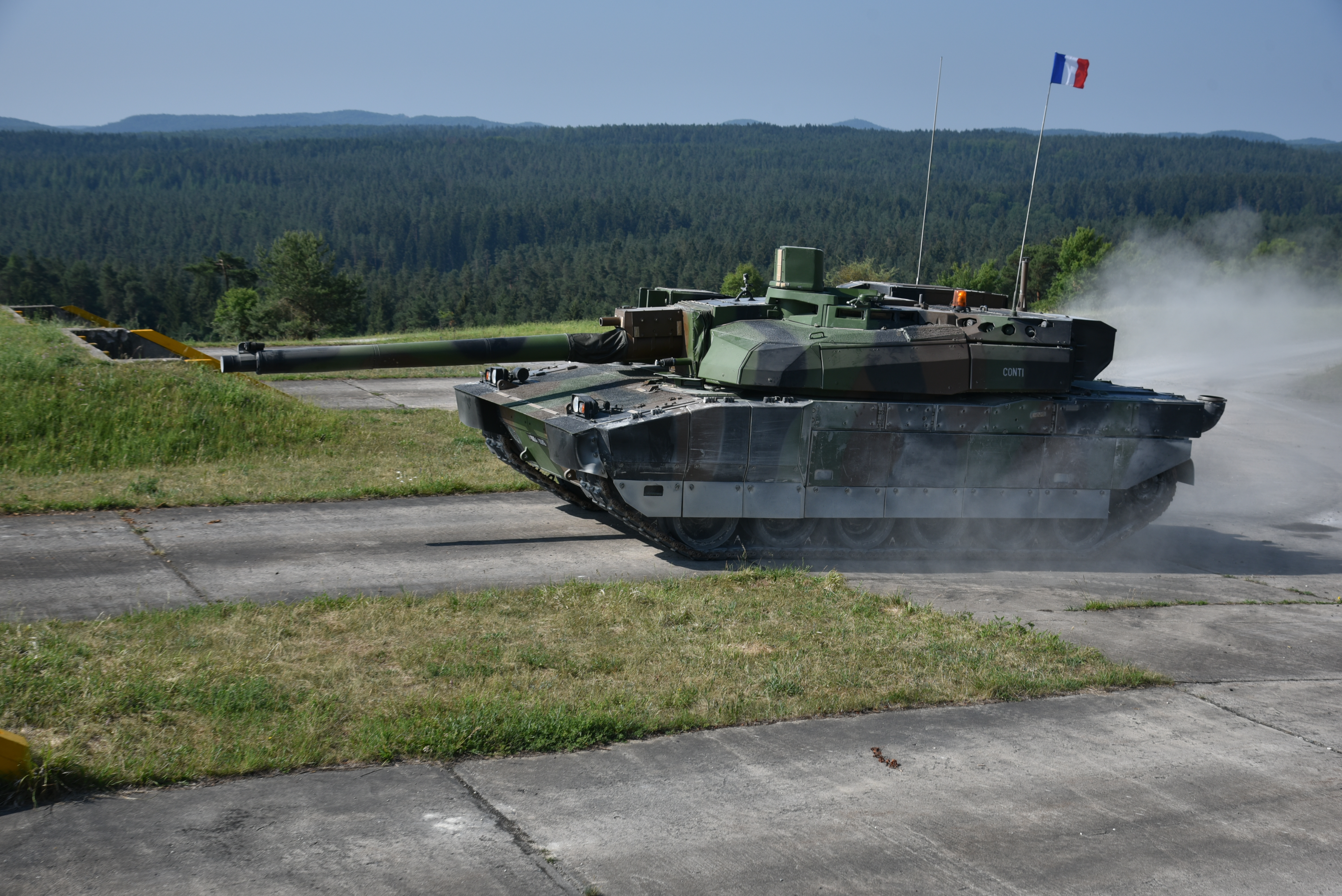 French soldiers assigned to 1er Régiment de Chasseurs ( 1st Hunter Regiment) participate in the Chemical, Biological, Radiological, Nuclear(CBRN) lane in their Leclerc tank during the Strong Europe Tank Challenge (SETC), at the 7th Army Training Command's Grafenwoehr Training Area, Grafenwoehr, Germany, June 05, 2018. U.S. Army Europe and the German Army co-host the third Strong Europe Tank Challenge at Grafenwoehr Training Area, June 3 – 8, 2018. The Strong Europe Tank Challenge is an annual training event designed to give participating nations a dynamic, productive and fun environment in which to foster military partnerships, form Soldier-level relationships, and share tactics, techniques and procedures. (U.S. Army photo by Spc. Craig Carter)